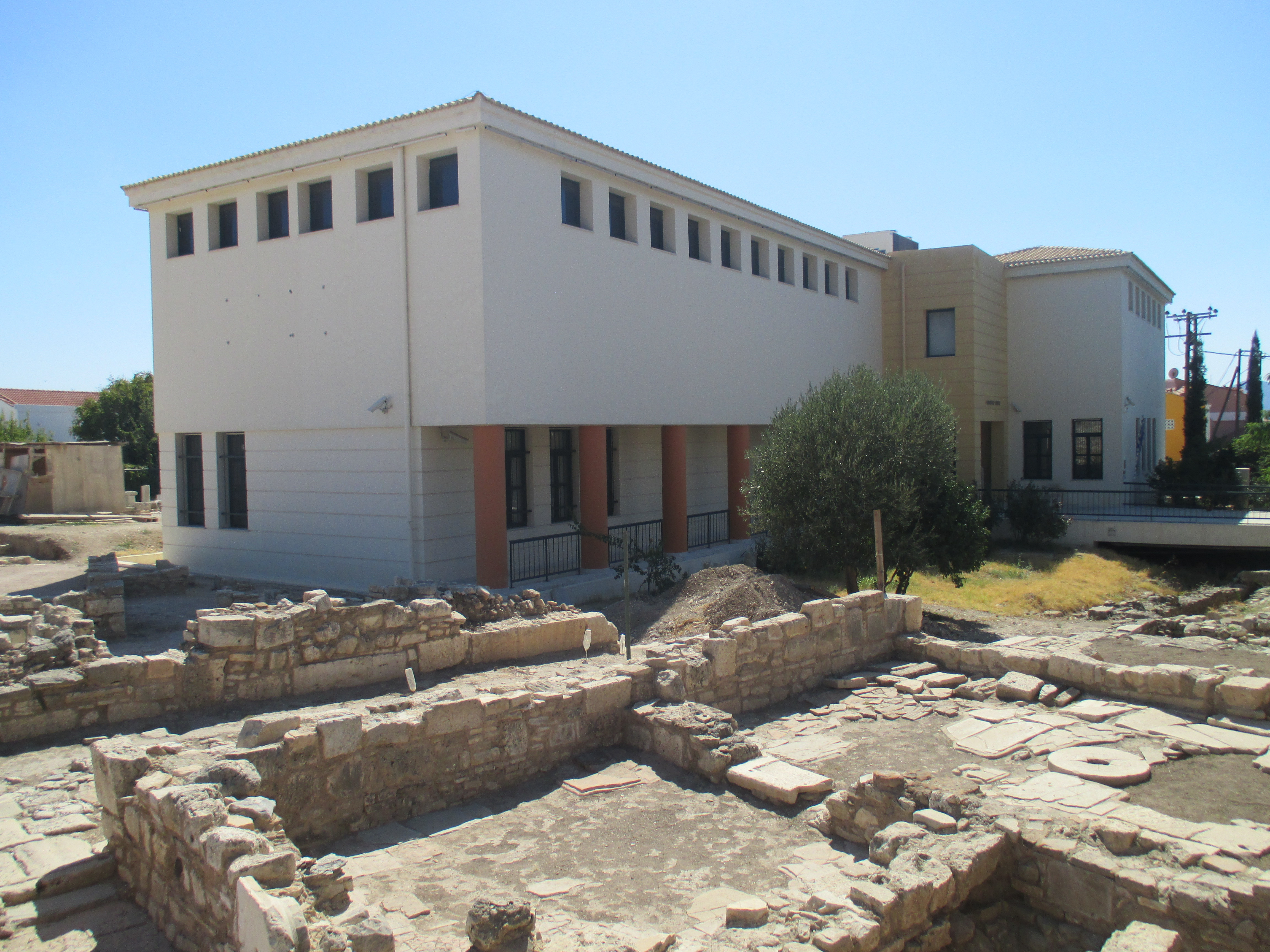 Archaeological Museum of Pythagoreio.